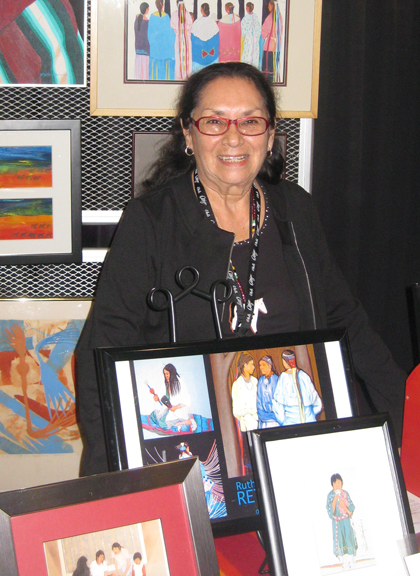 Shawnee-Delaware-Peoria artist and educator, Ruthe Blalock Jones